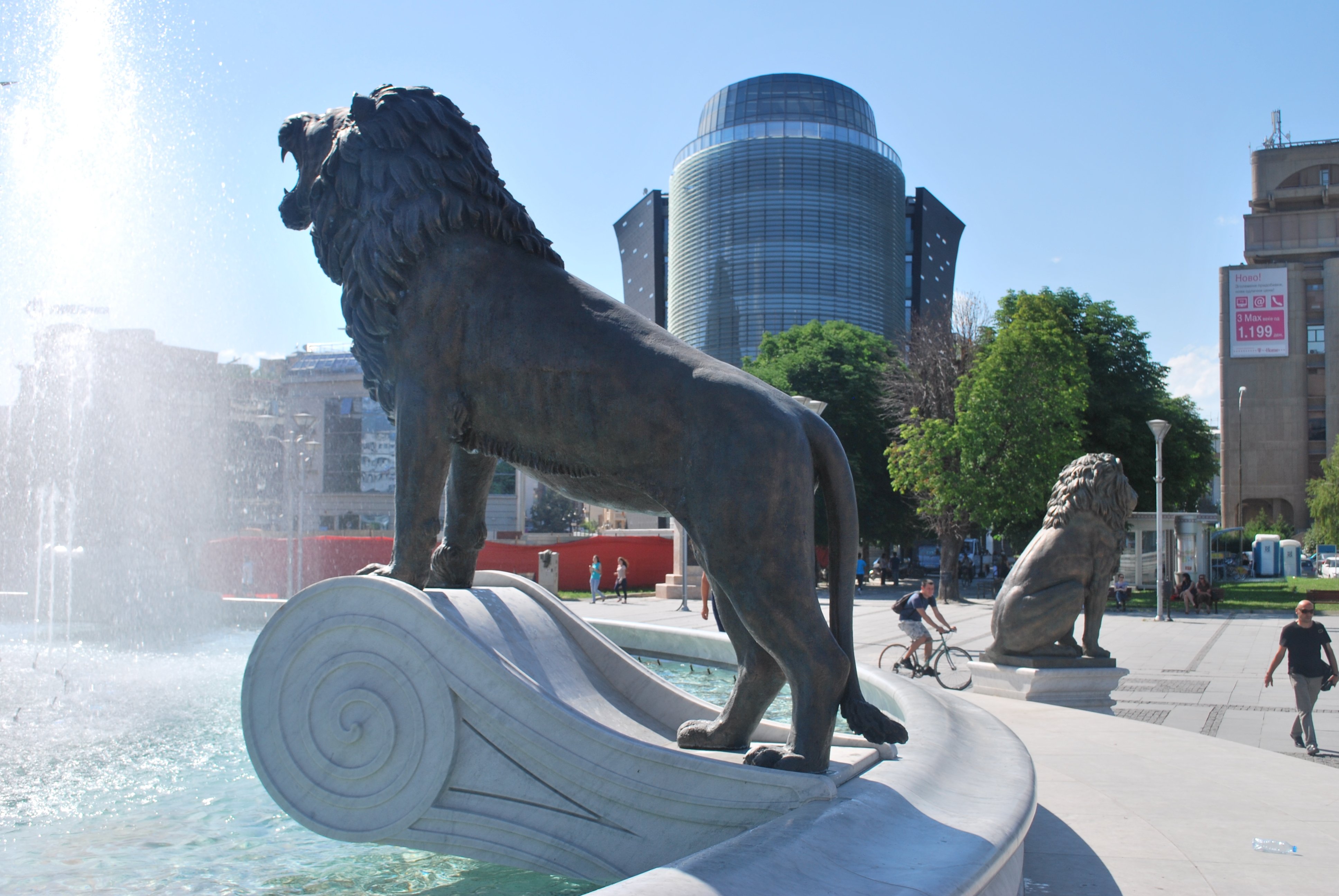 Warrior on Horseback in Macedonia Square in Skopje, Macedonia